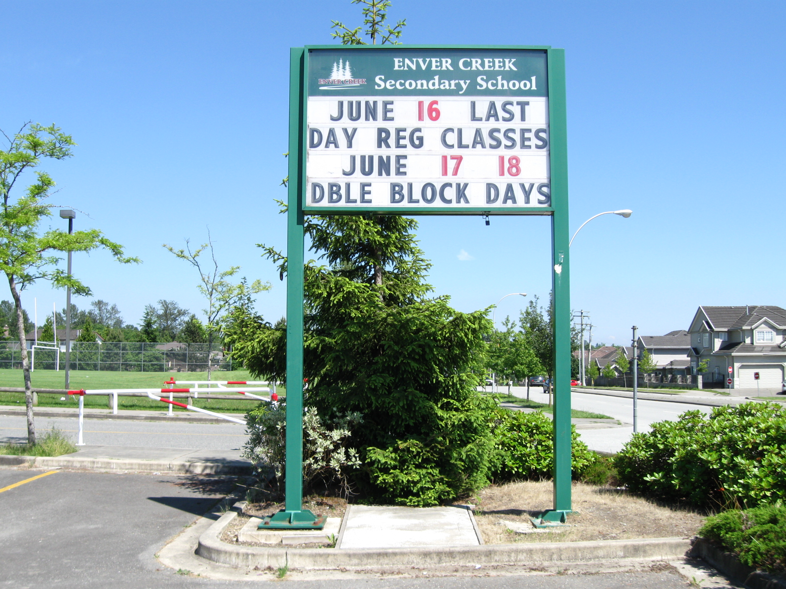 The school noticeboard for Enver Creek Secondary at 14505 84 Avenue in Surrey, British Columbia, Canada.